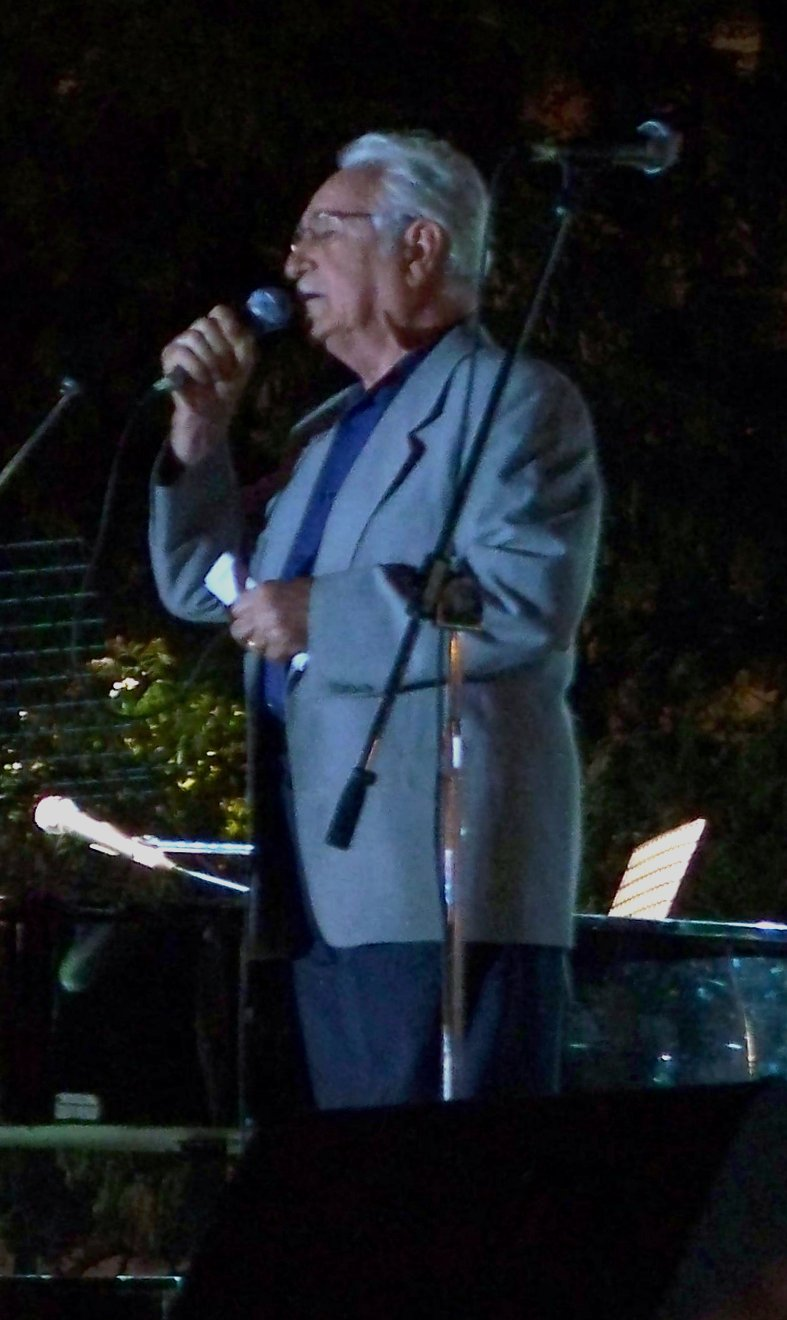 Greek traditional singer Chronis Aidonidis (Χρόνης Αϊδονίδης), July 2007.